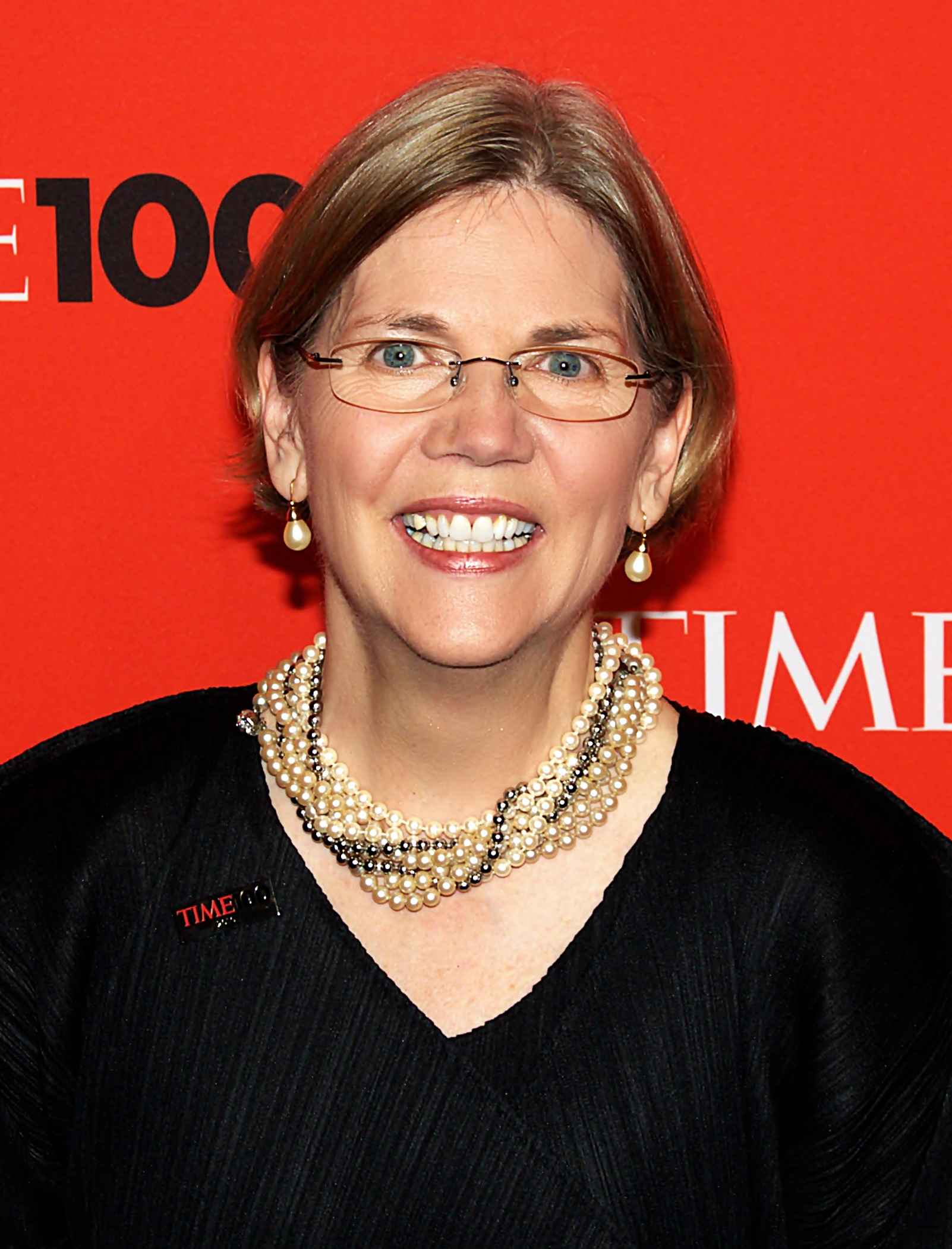 This photo is from the Time 100 Gala - read how I feel about Elizabeth Warren.